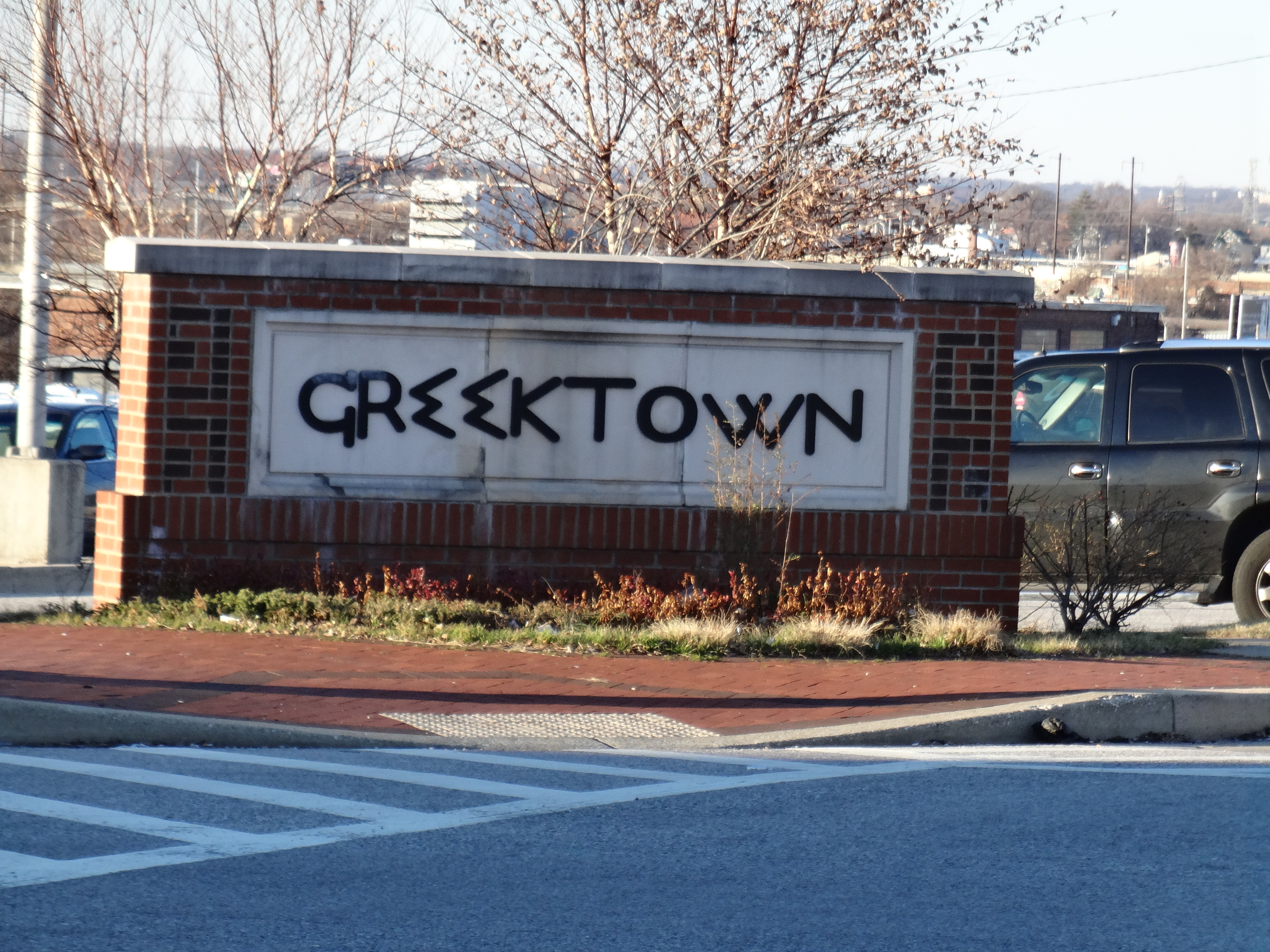 Sign for Greektown, Baltimore.